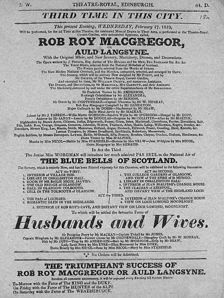 Rob Roy MacGregor 1819 17 Feb with Miss Emma Nicol and Mrs Nicol in it.